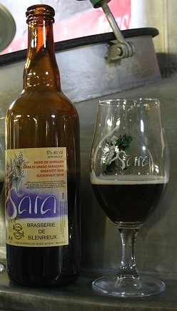 sil18detail - A bottle of Sara (Brasserie de Silenrieux)